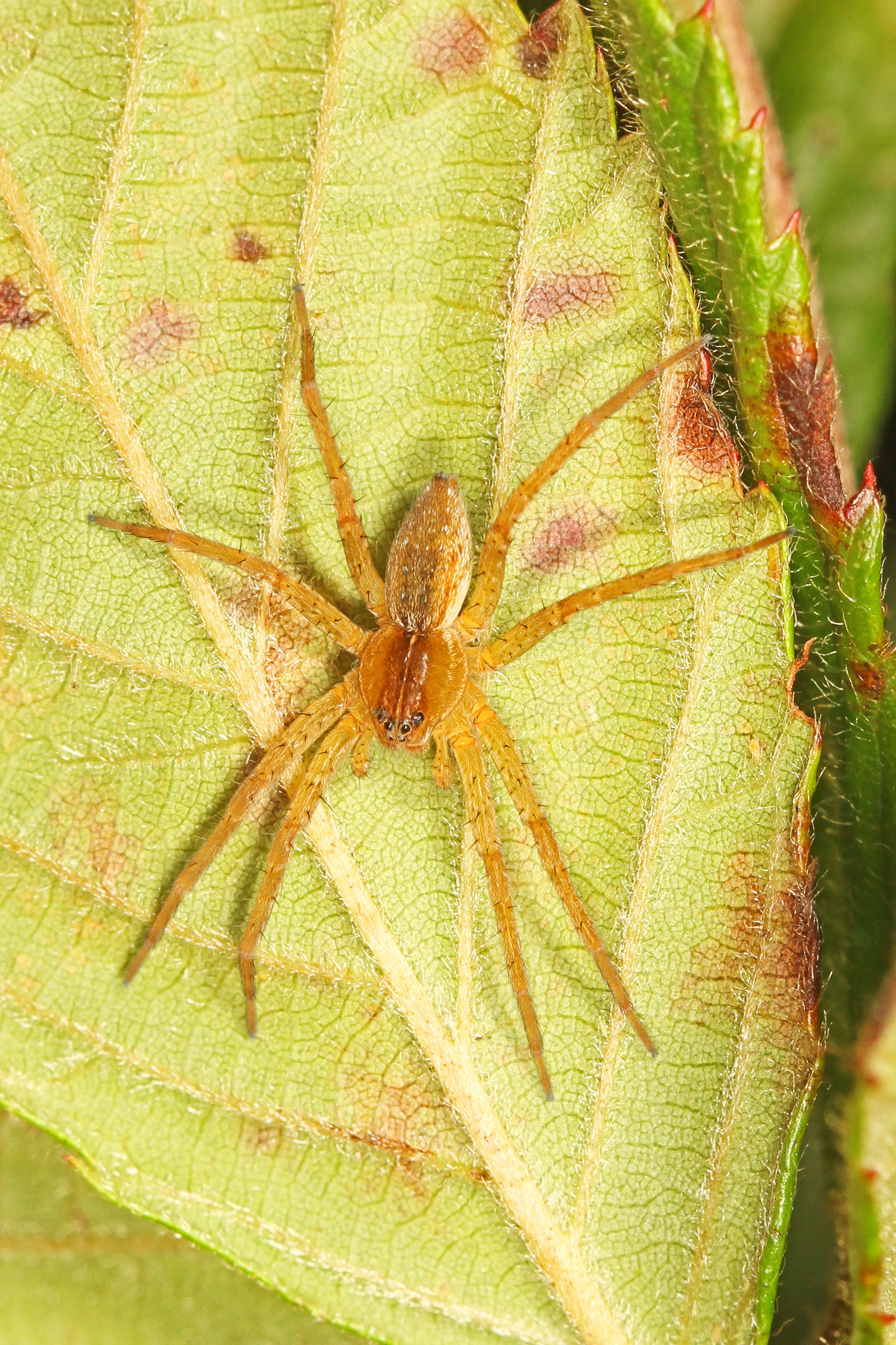 Six-spotted Fishing Spider - Dolomedes triton, Julie Metz Wetlands, Woodbridge, Virginia